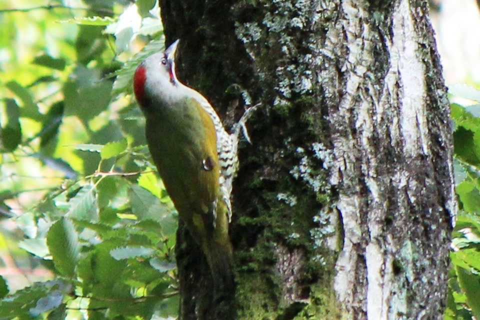 Picus awokera (Japanese Green Woodpecker), in Japan.